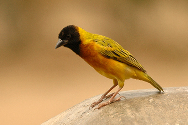 Uganda: Yellow-backed Weaver (Ploceus melanocephalus) Mbweya QE NP Dec 2005